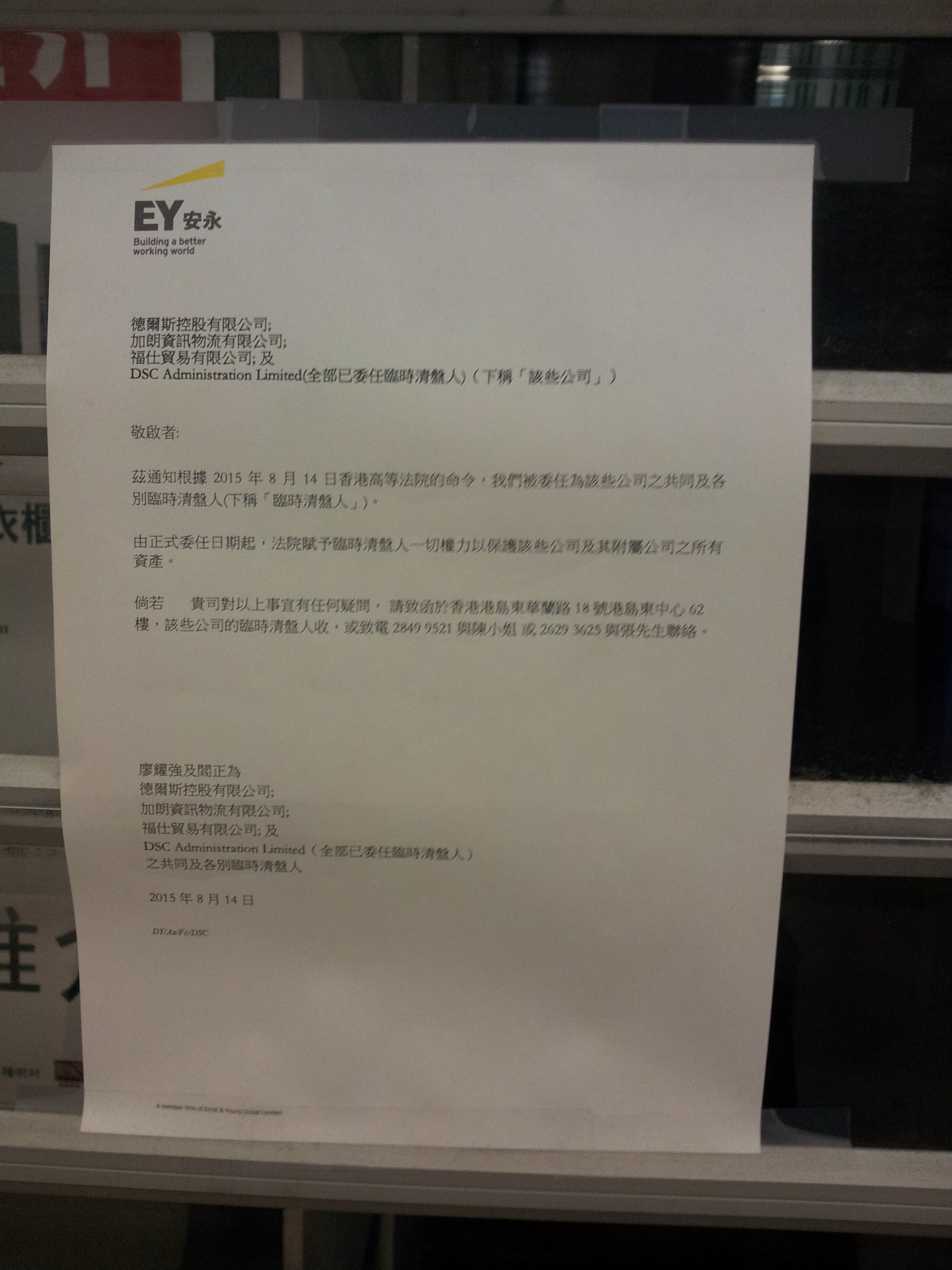 Notice of appointment of provisional liquidators of DSC Holdings